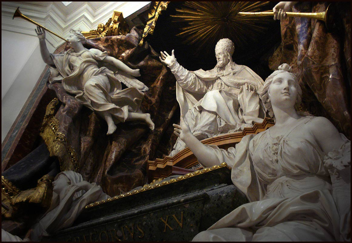 Tomb (detail) of Pope Gregory XV and his nephew Cardinal Ludovico Ludovisi, Sant'Ignazio, Rome. Sculptor: Pierre Le Gros the Younger, and Pierre-Étienne Monot (angel)